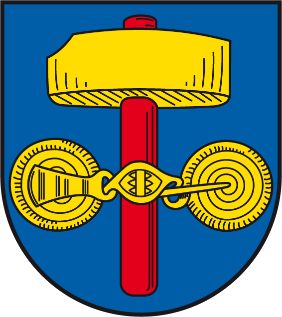 Coat of arms of Gütz, Part of Landsberg